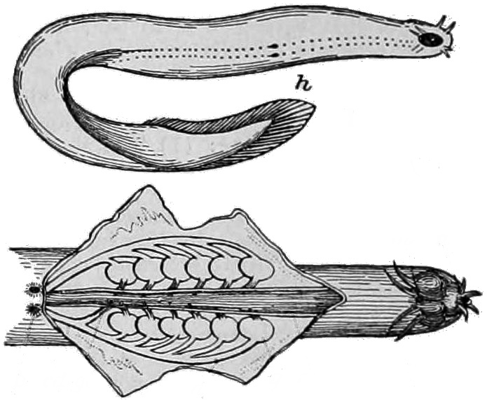 Two views of the hagfish (Myxine glutinosa) with analytical overlays and disection.